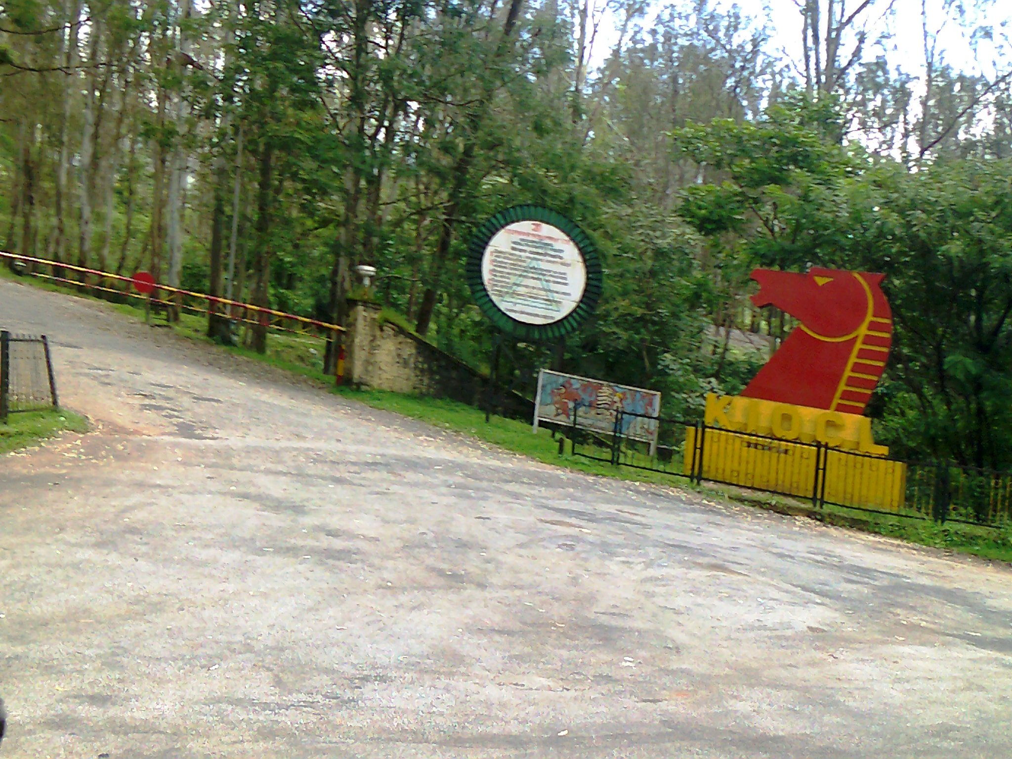 Kudremukh, Karnataka, India.